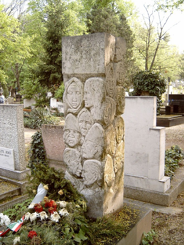 Mihály Váczi's Tomb.